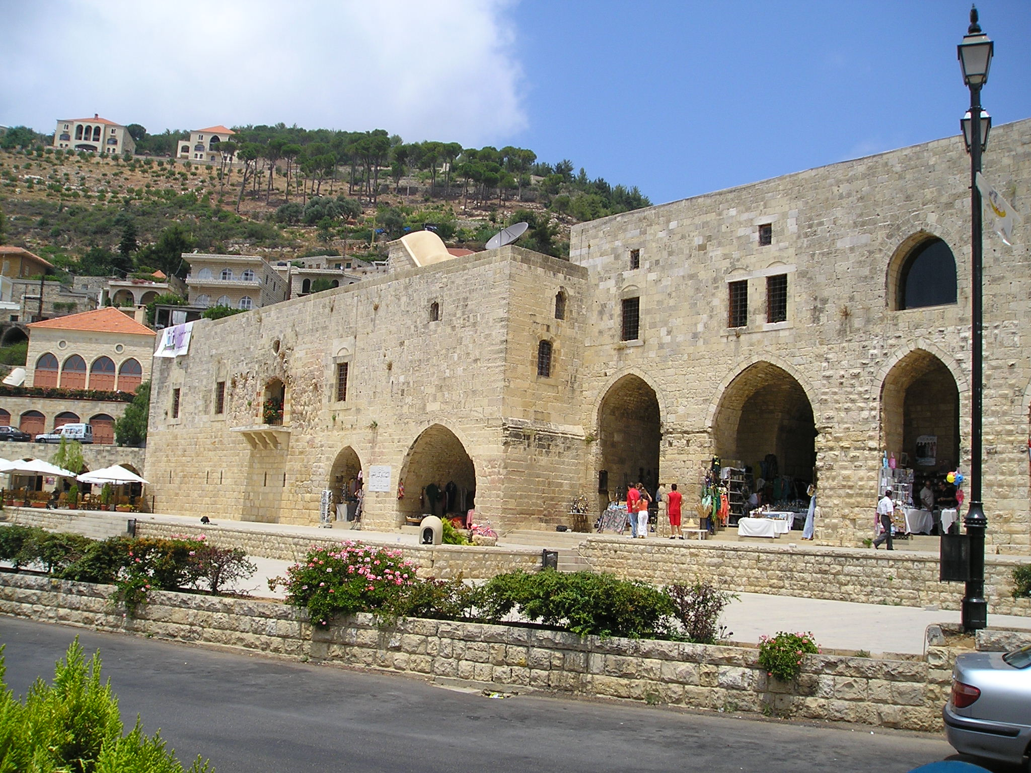 Deir al-Qamar, Lebanon - Silk khan and warehouse, today French culture centre